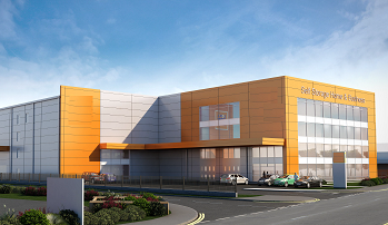 A typical UK self-storage facility.